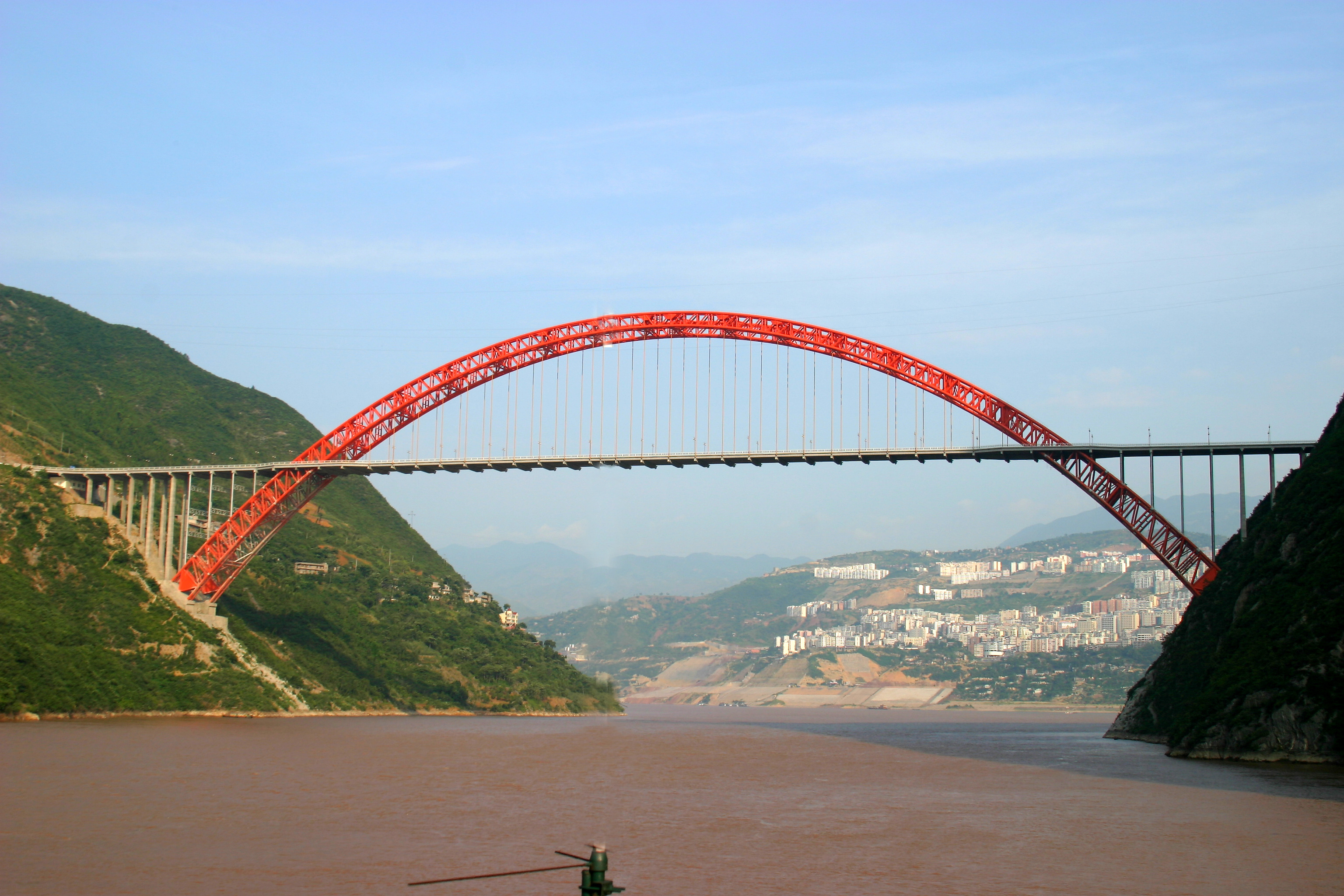 Interesting bridge near Wushan on the Yangtze River, China